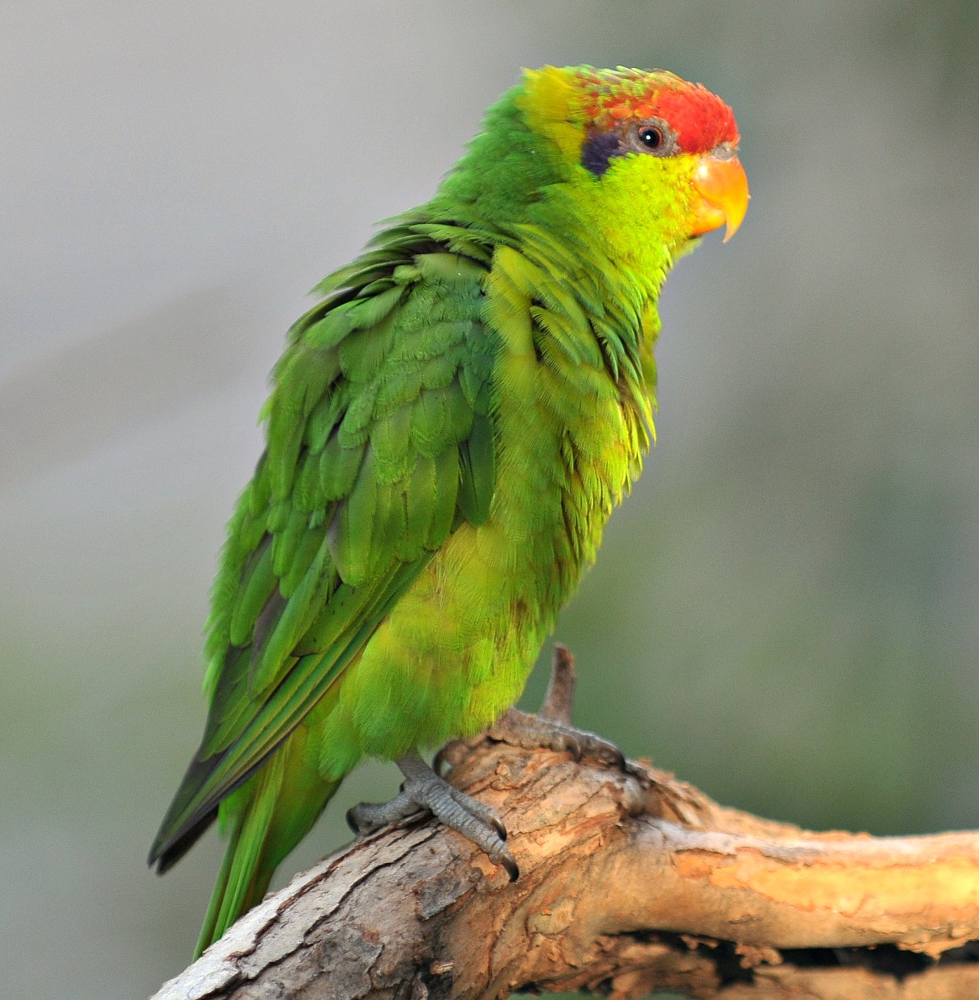 Iris Lorikeet (Psitteuteles iris) at San Diego Zoo, USA.